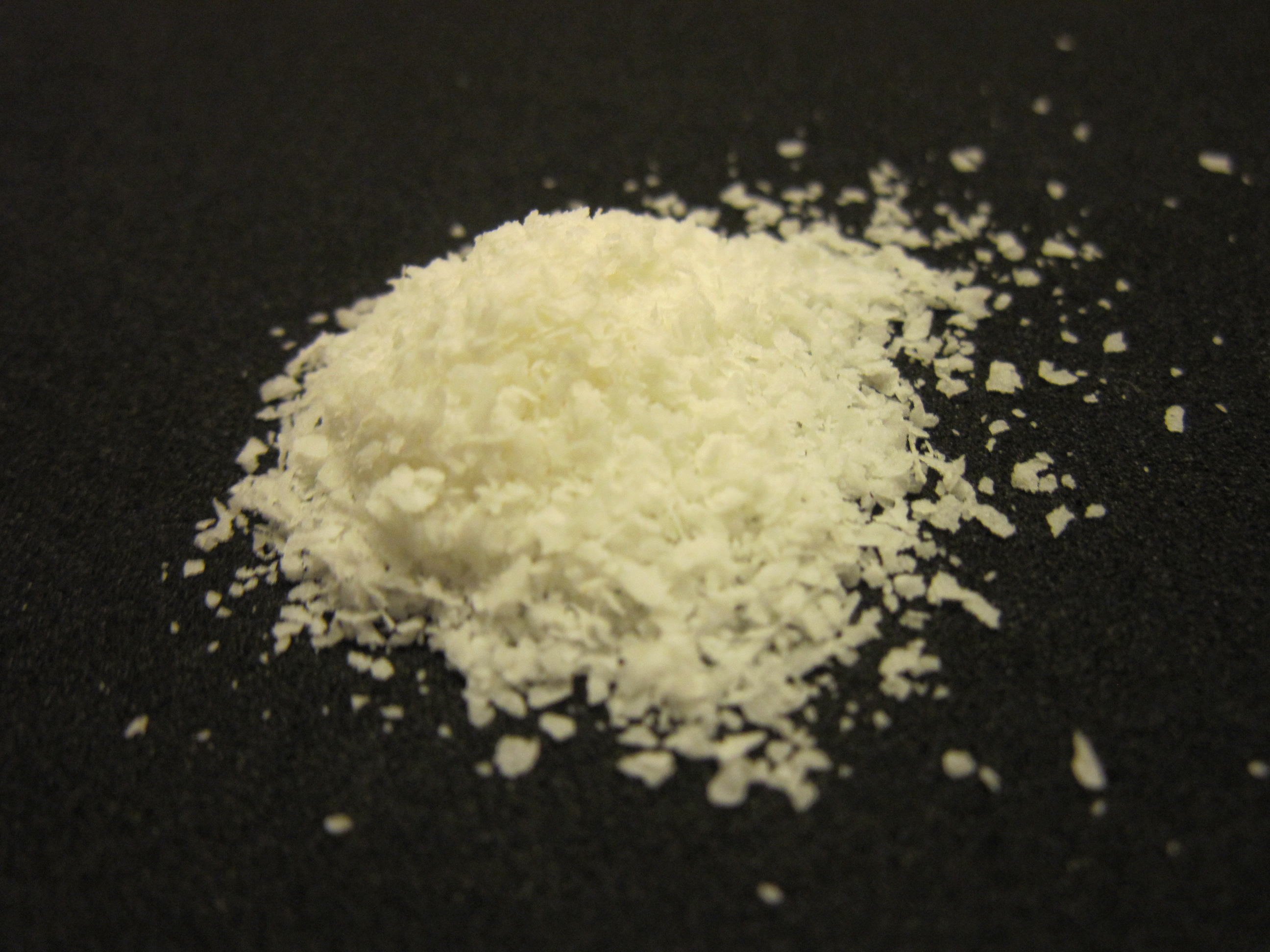 Wallpaper Paste/Adhesive flakes created from modified starch that are mixed with water to produce wallpaper paste.